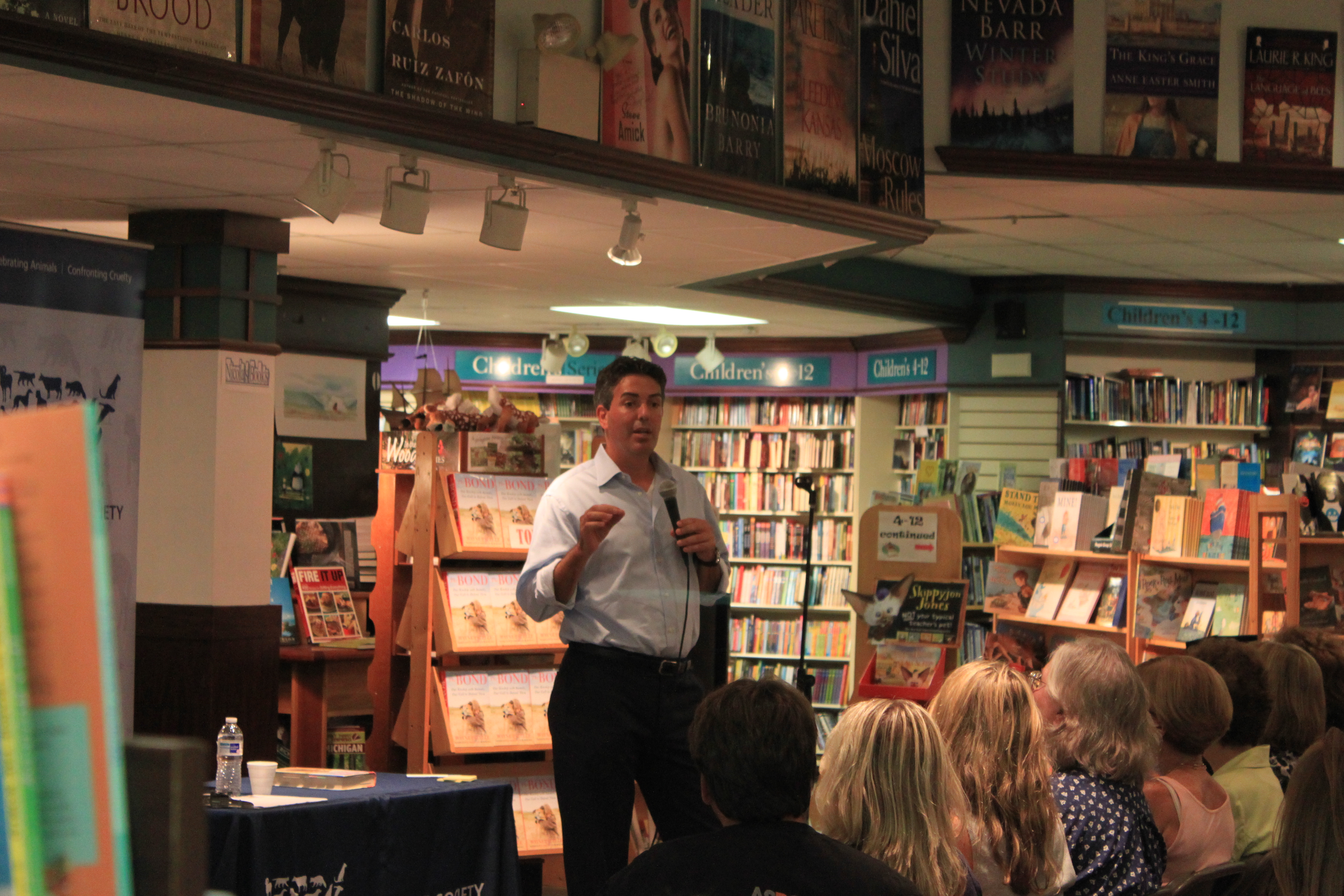 Wayne Pacelle, CEO of the Humane Society of the United States, at a book signing event for his book "The Bond: Our Kinship with Animals, Our Call to Defend Them" at Nicola's Books, 2513 Jackson Road (Westgate Shopping Center), Ann Arbor, Michigan.